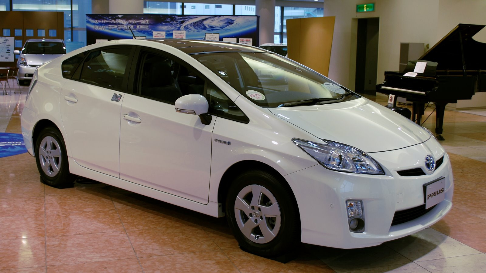 3rd generation Toyota Prius G (2009/5 - ),Good Design Award 2009.